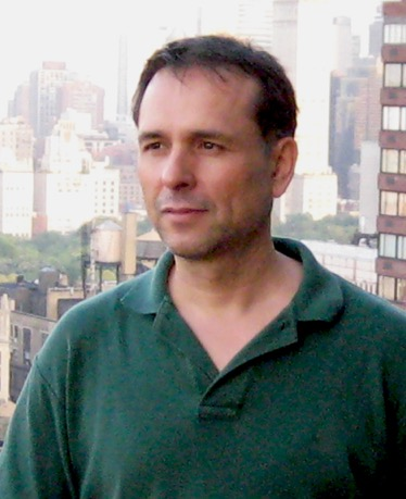 Portrait of Vittorio Santoro, New York, 2011. Photography by Ibra Morales.